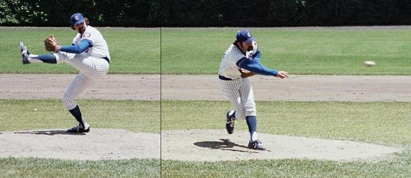 Dick Tidrow in 1981.